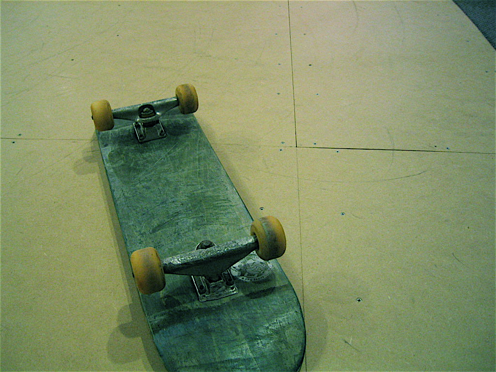 Skateboard on ramp covered in masonite.